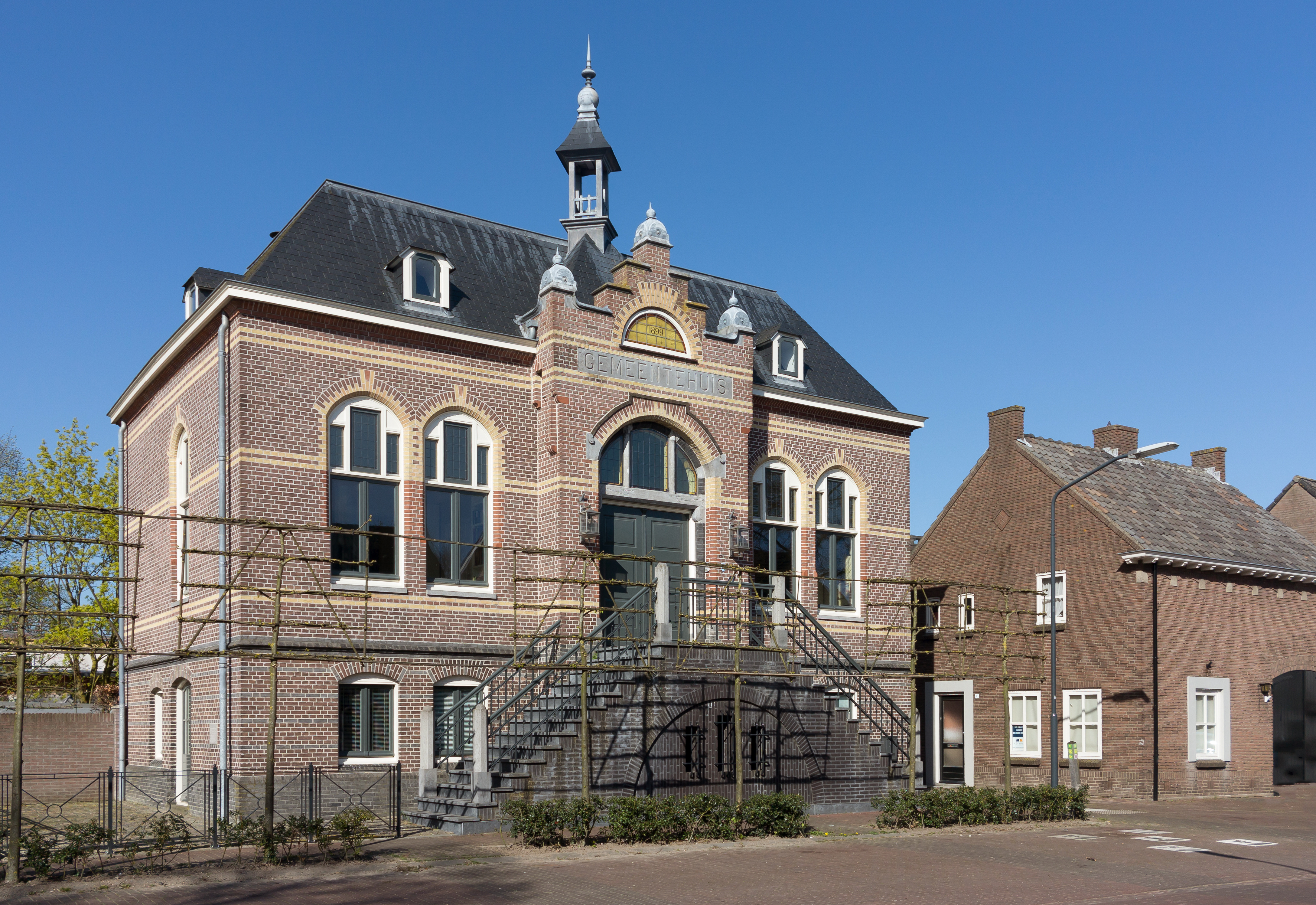 Cromvoirt, former townhall